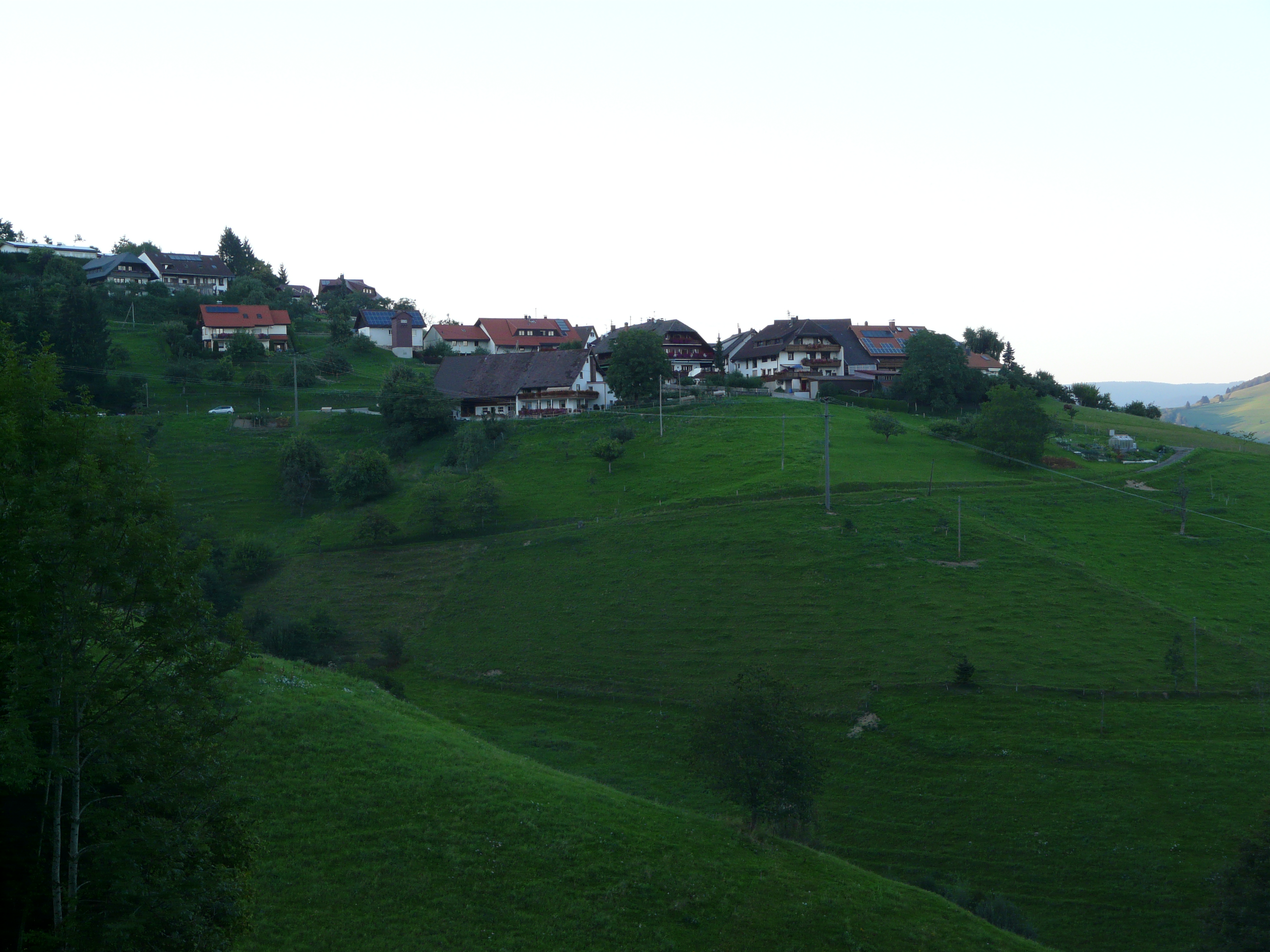 Pfaffenberg, part of Zell im Wiesental